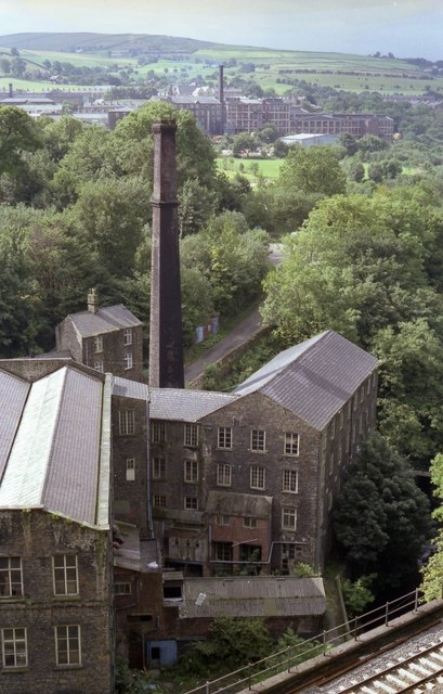 New Mills - Torr Vale Mill This photo was taken in 1982 when the mill was still in use. The vandals and arsonists have since taken over. The large building in the background (in Newtown) is the Swizzel's factory.